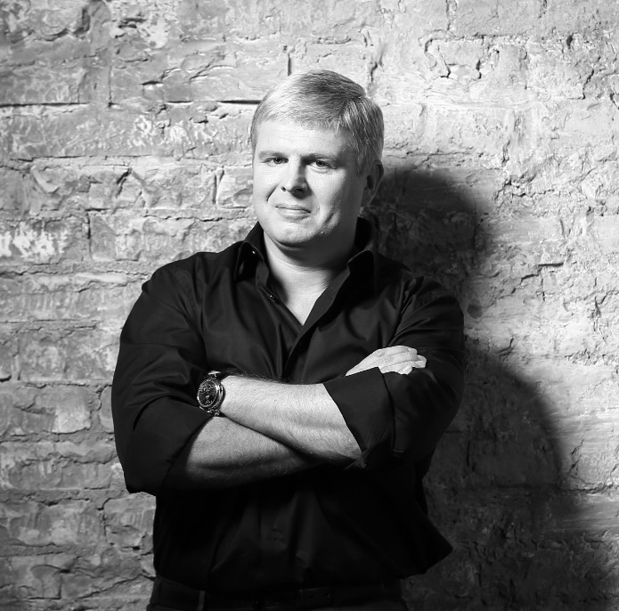 А. Рябинский - топ-менеджер строительных предприятий РФ, вице-президент Федерации профессионального бокса России